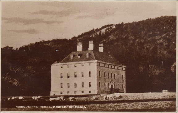 Old photo of Moncreiffe House, Bridge of Earn, Scotland